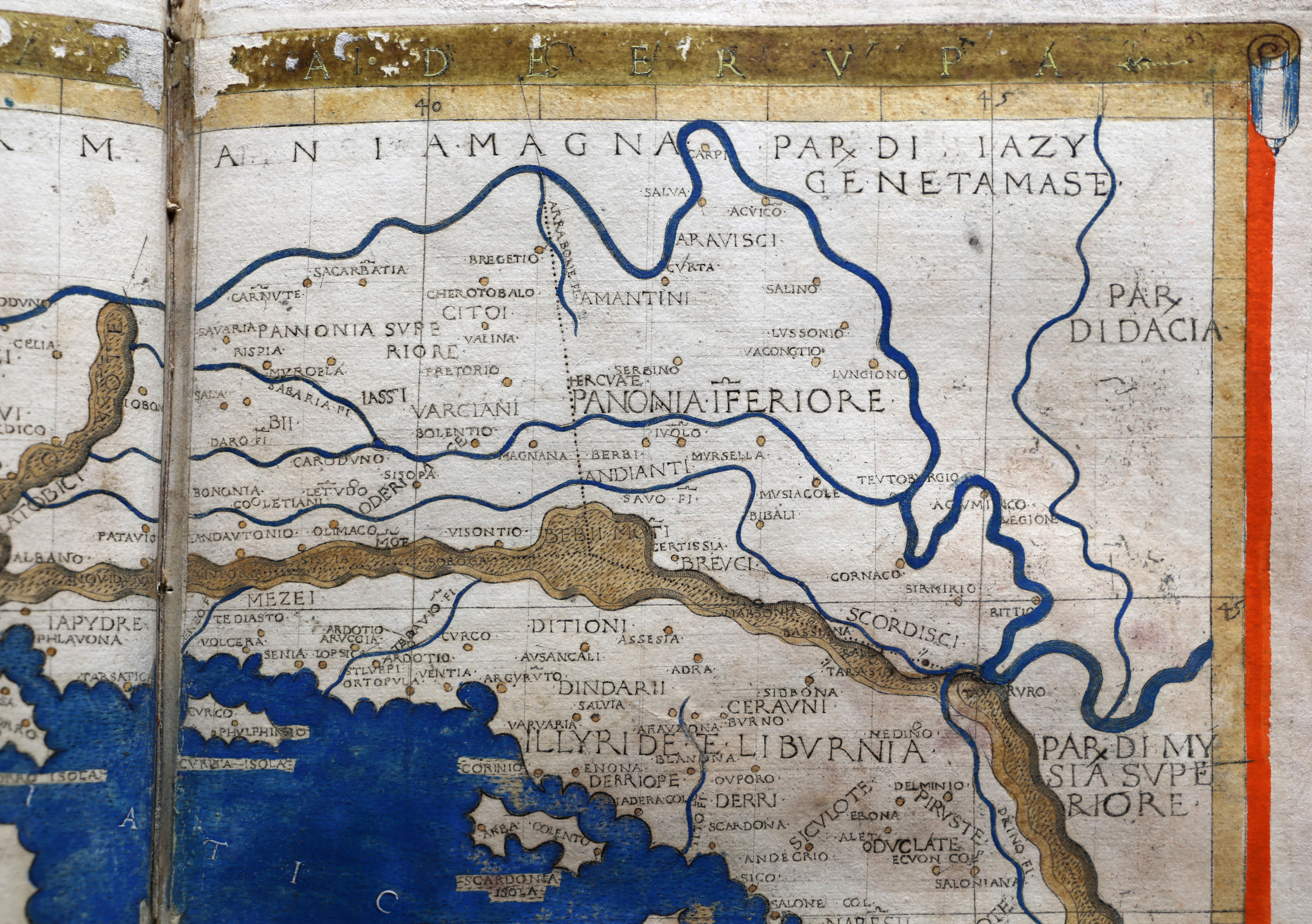 Geographia by Francesco Berlinghieri (Crusca)